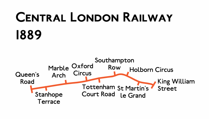 Geographic Map of the Central London Railway as planned in 1889